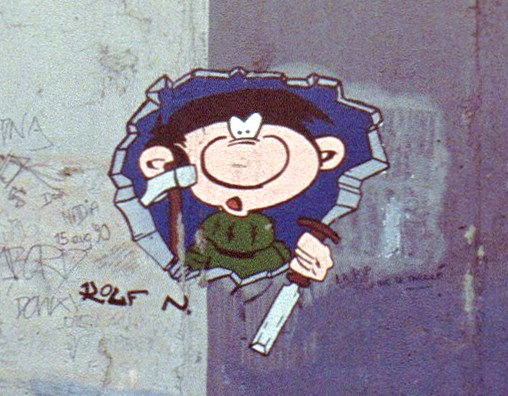 East Side Gallery Berlin / Gaston Lagaffe